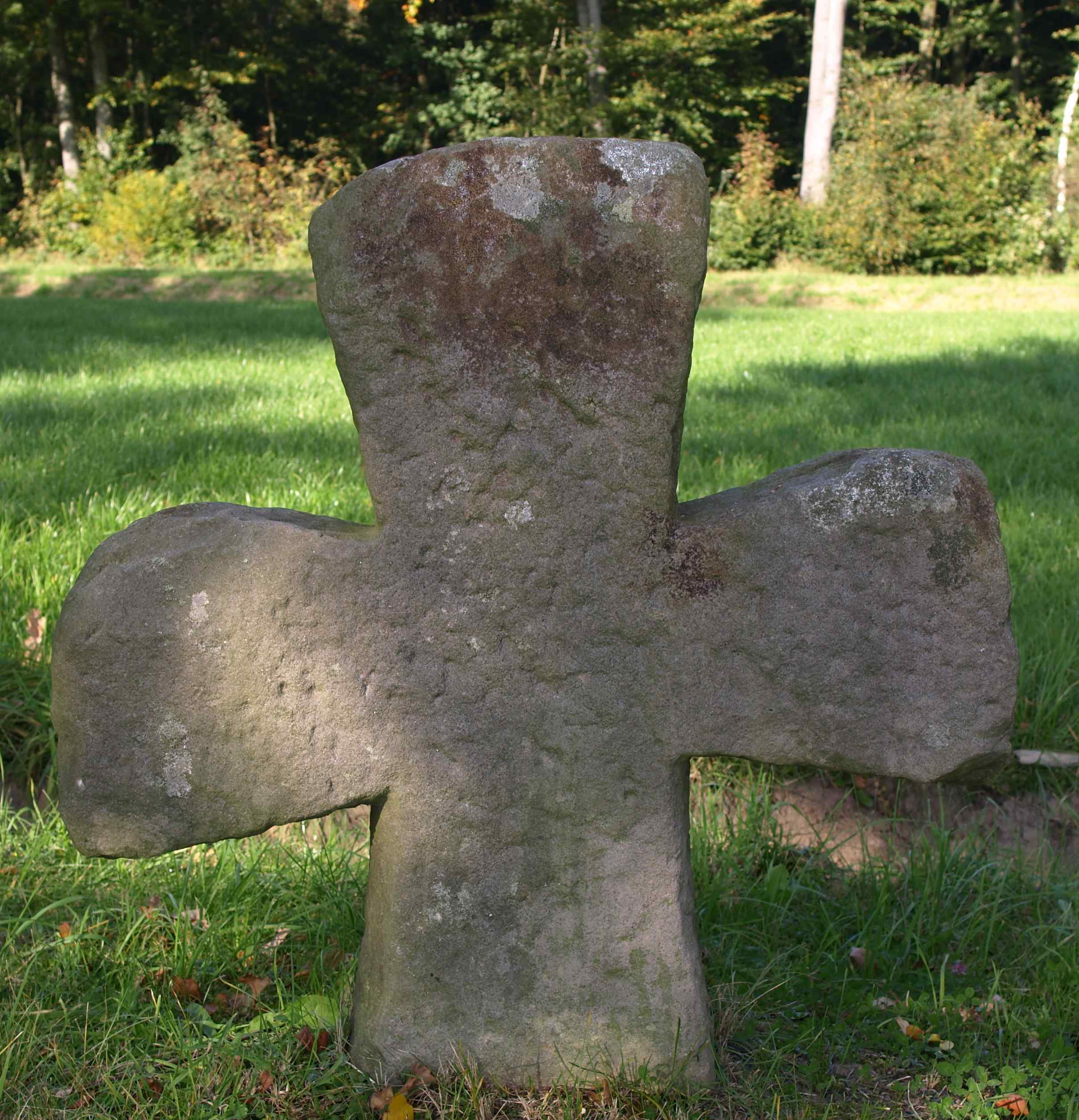 Stone crosses (Lea memorial) near Schenklengsfeld-Wippershain